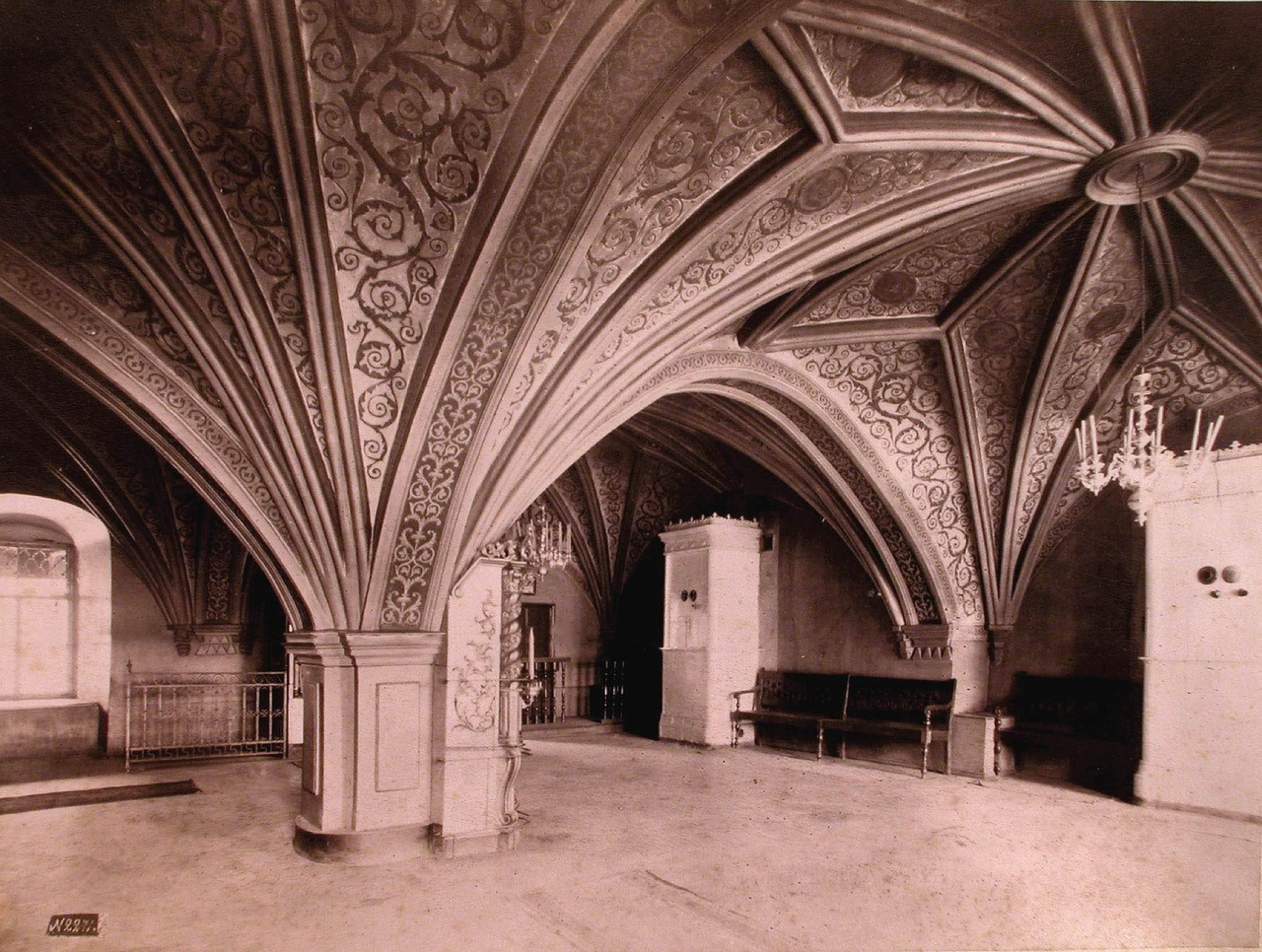 Faceted (Vladychnoe) Chamber in the Novgorod Detinets